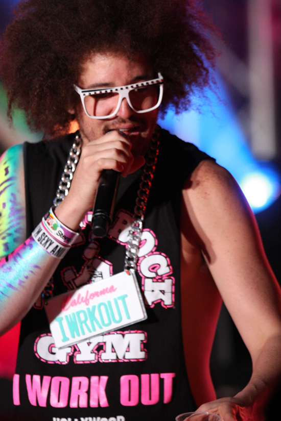 Take 40 Live Lounge with LMFAO At The Entertainment Quarter, Moore Park, Sydney Down under for for the Stereosonic, Foreshore, and Breakout festivals, LMFAO rocked the Live Lounge, Moore Park, in the backdrop of Fox Studios with a solo show tonight. The Take 40 Live Lounge went off, and was presented by cashed up Debit Mastercard. LMFAO are an electric pop duo from the U.S consisting of DJs Redfoo and SkyBlu, and are one of the biggest party rocking acts in the world right now. This year the band released their second studio album Sorry For Party Rocking which spawned such epic party hits as Sexy and I Know It, Champagne Showers and Party Rock Anthem. LMFAO played hits from this album and the energy was fantastic. The Take 40 Live Lounge had 150 guests, all up close with LMFAO! The Take 40 Live Lounge has previously housed some other awesome artists including Kasabian, Maroon 5, Vanessa Amorosi and Jessie J. Well done to all involved for putting this event together. Special thanks to Nicole Hart at Revolutions Per Minute PR, MCM Media, Entertainment Quarter staff and management, and a ton of others. Websites LMFAO The Entertainment Quarter Take 40 MCM Media Eva Rinaldi Photography Eva Rinaldi Photography Flickr Music News Australia